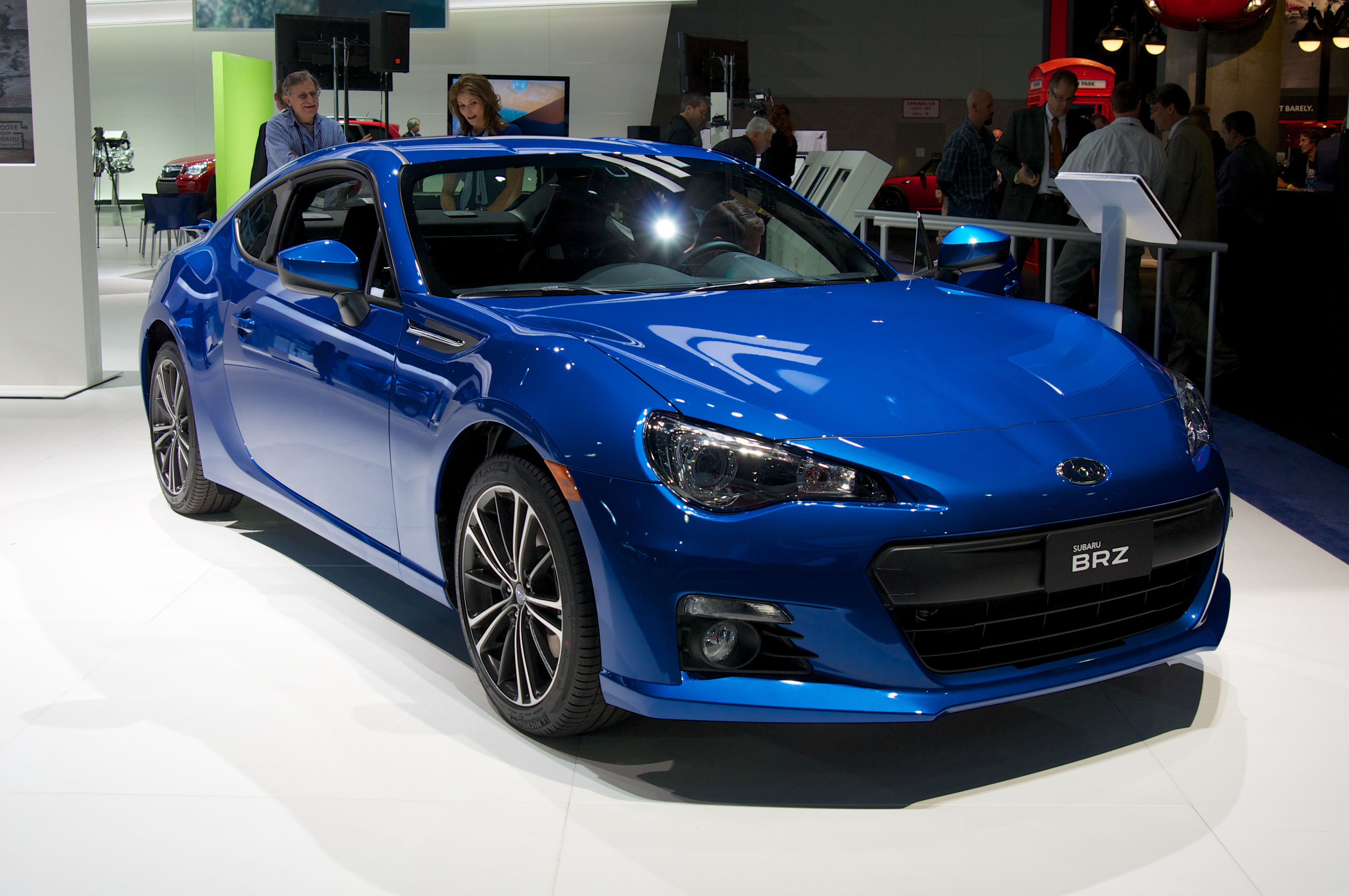 Seen at the 2012 Los Angeles Auto Show. Press day - Wednesday, November 28th. If you use one of my photos, please be so kind as to attribute me and link back to the photo's page. THANK YOU!